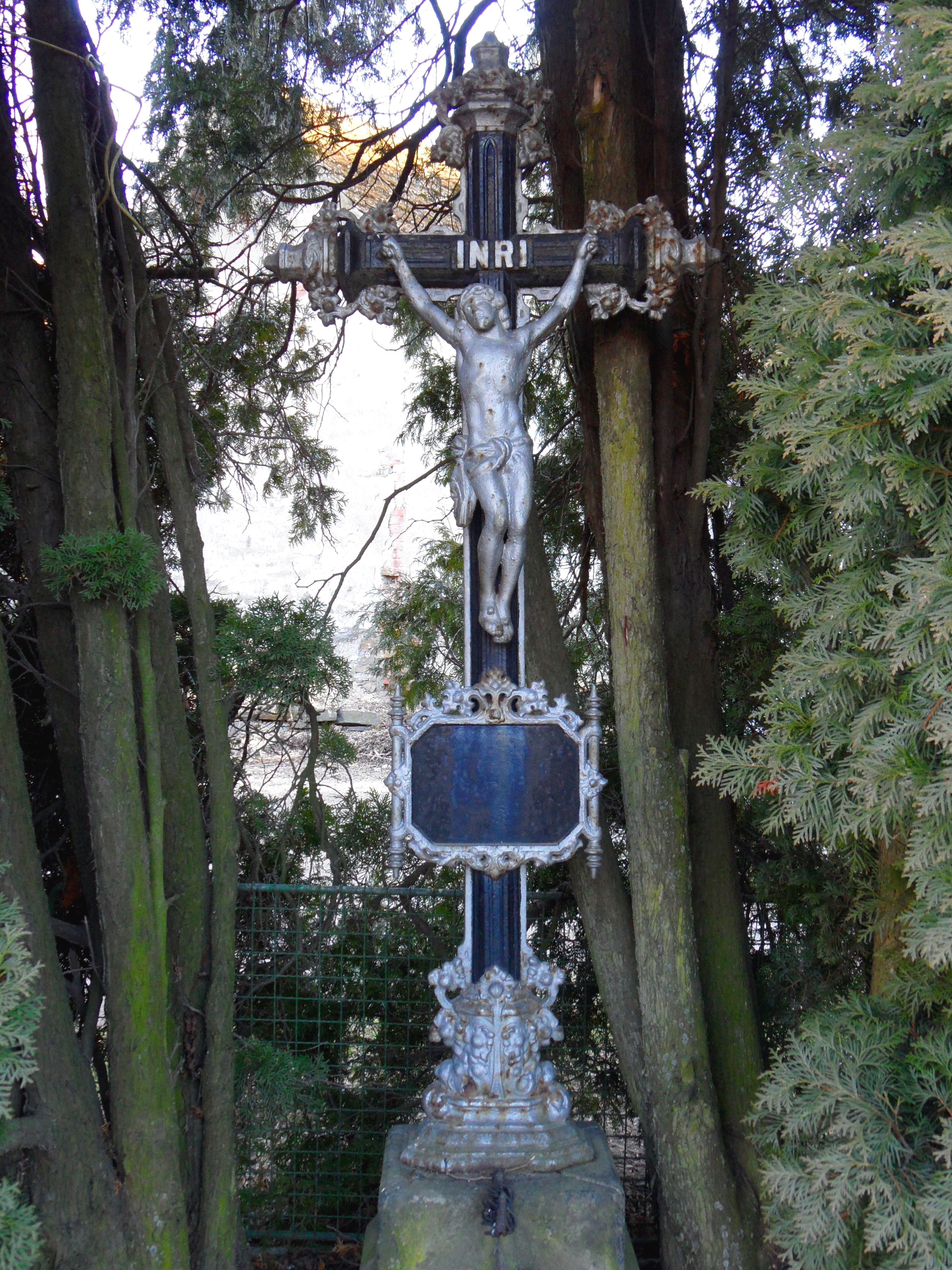 Sirákovice A. Crucifix at Crossroads, Havlíčkův Brod District, the Czech Republic.